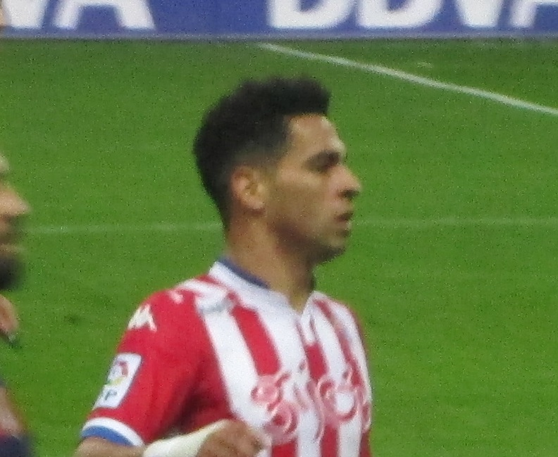 Omar Mascarell playing for Sporting Gijón